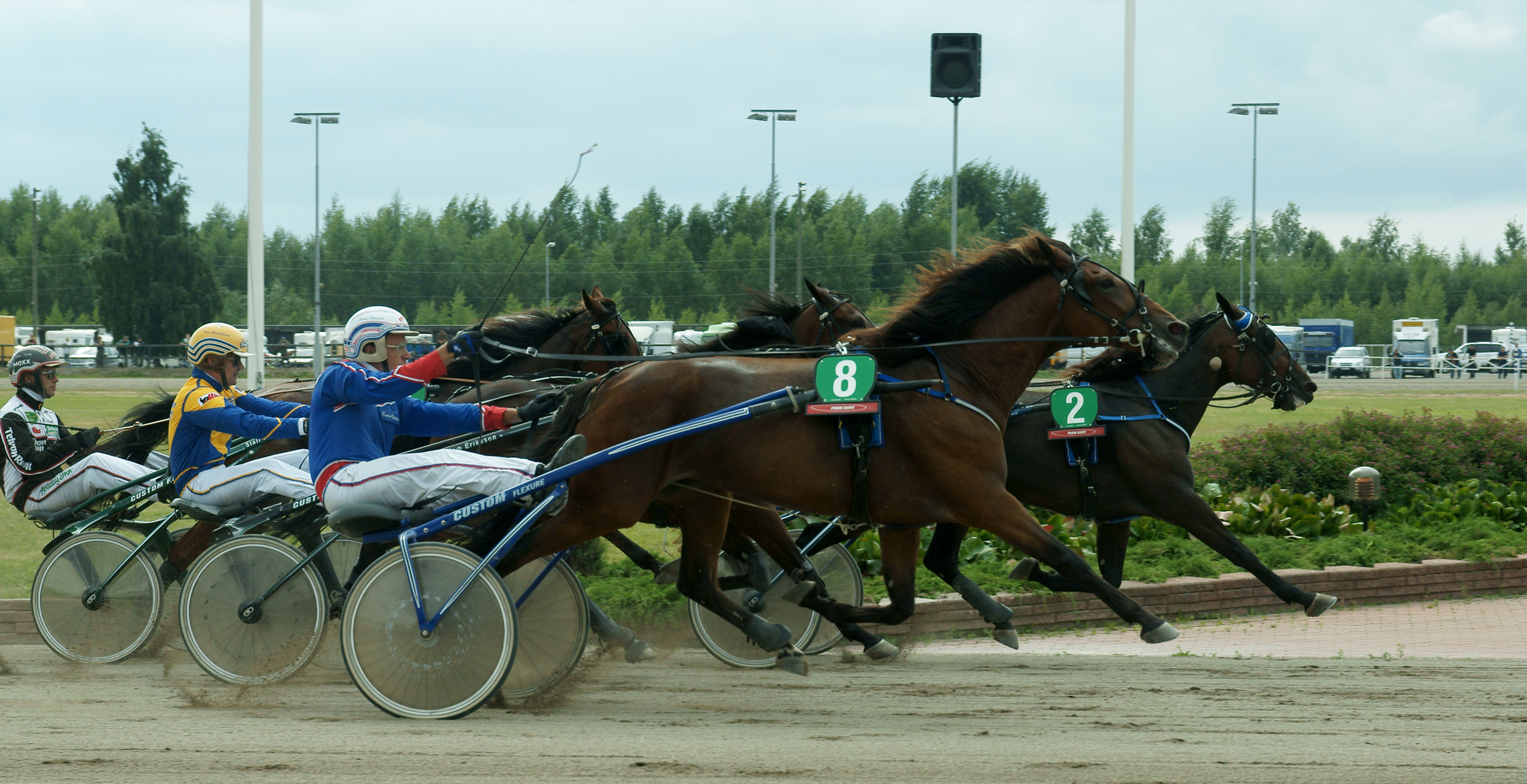 Start number 4 in Pori harness racing track 6.8.2011. Horse number 9 is Celsius Ås with Kari Venäläinen, number 8 is Sweet Sunrise with Tuomo Ojanperä and number 2 is Magic Muscles Pekka Korpi.